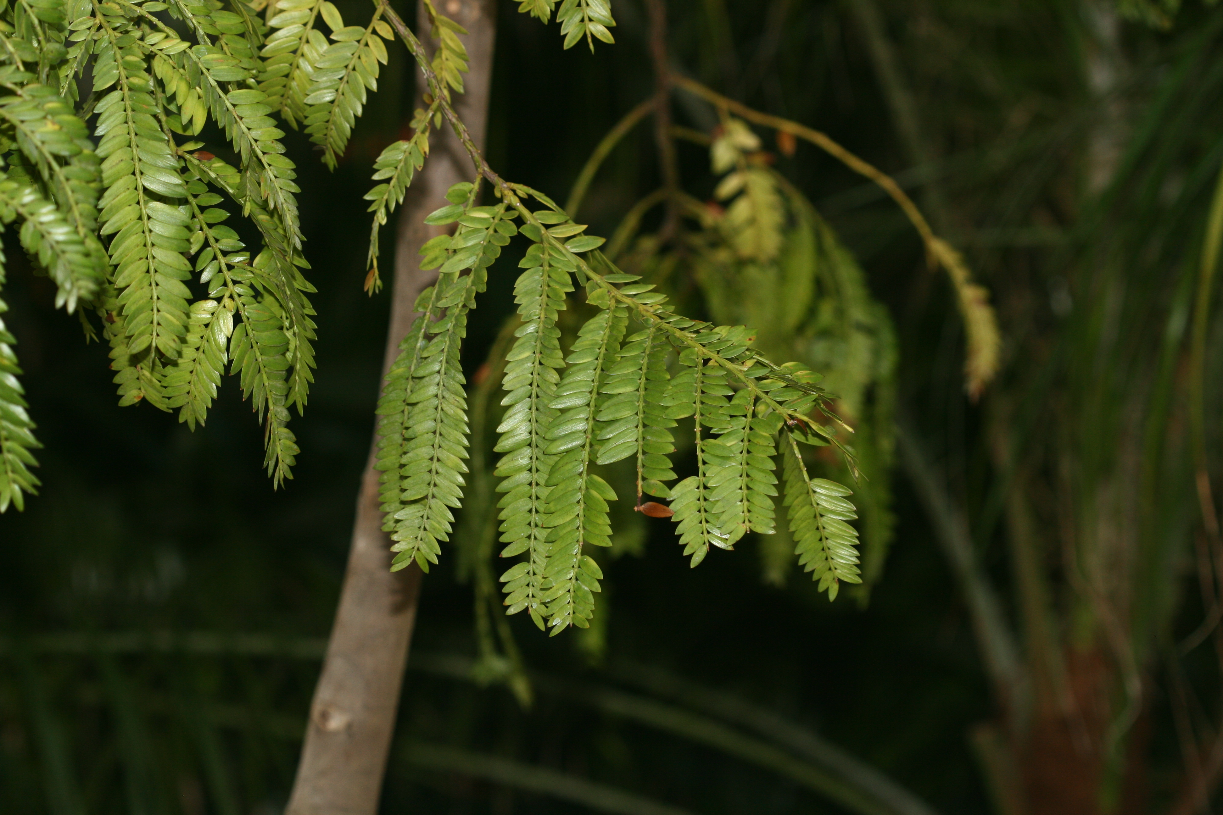 Conifer native to Colombia. One of many species threatened by deforestation for the planting of coca crops, supplying the illegal international cocaine trade to feed the addictions of fools and lining the pockets of human refuse! Royal Botanic Gardens, Edinburgh, Scotland